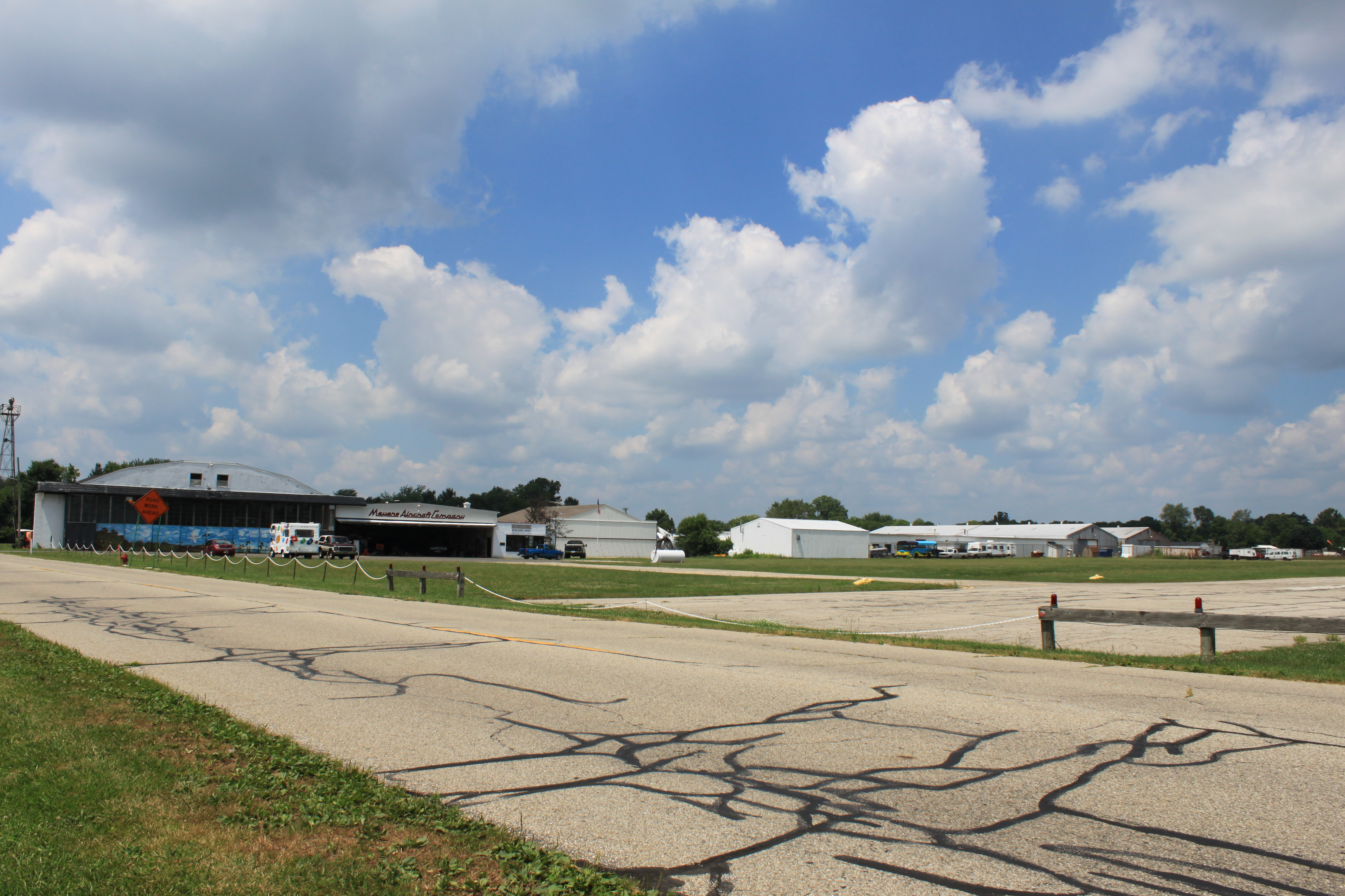 Meyers-Diver's Airport, Tecumseh Michigan, 4330 Macon Road